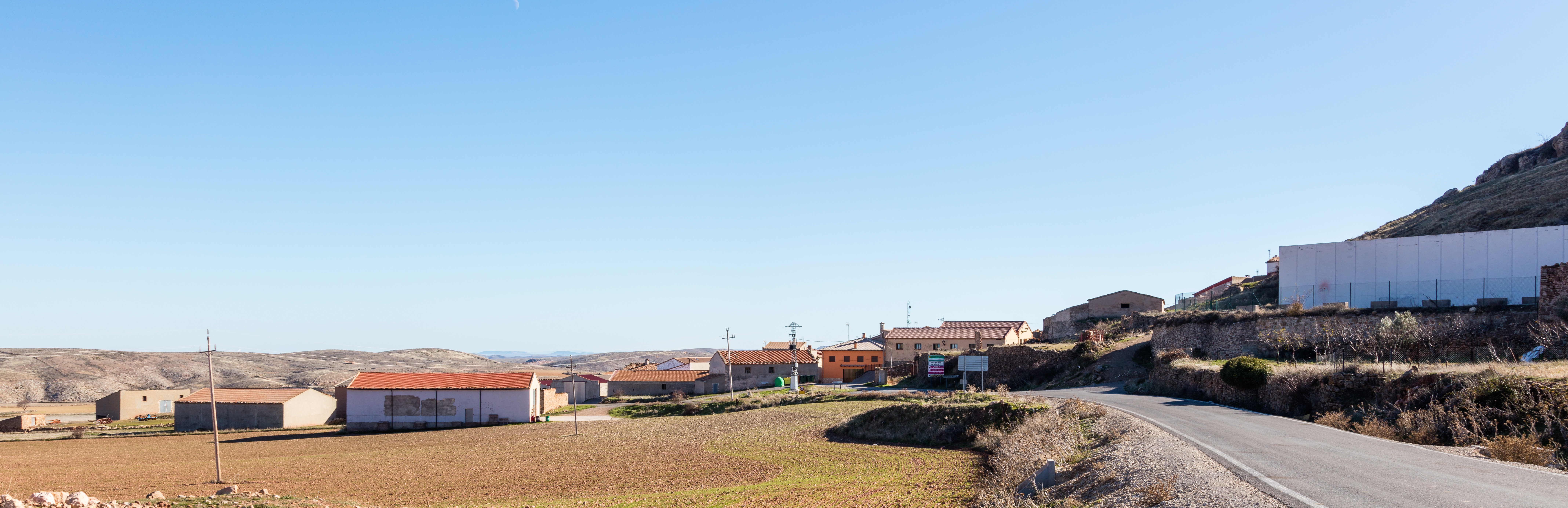 Monforte de Moyuela, Teruel, Spain